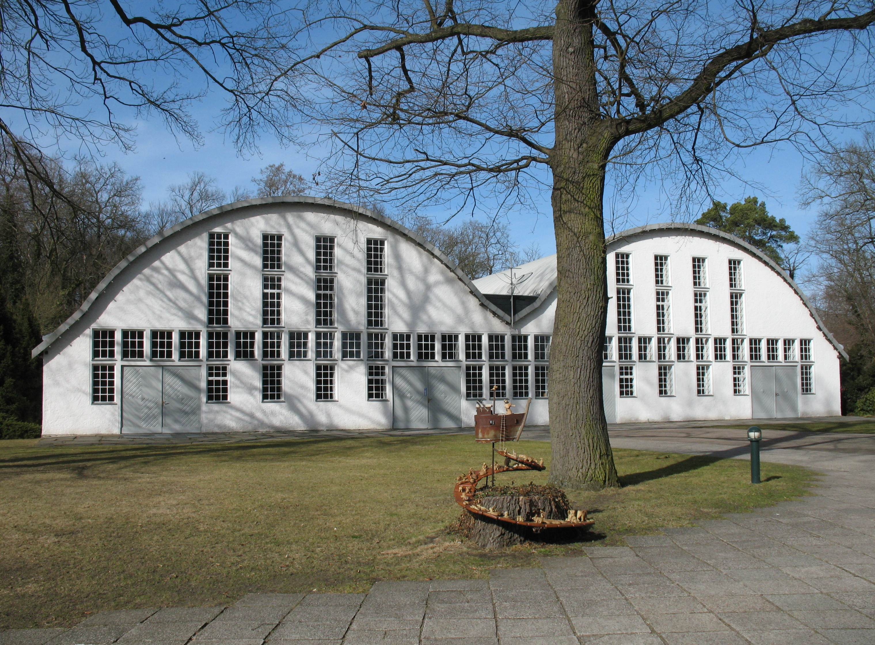 Johannische Church in Trebbin-Blankensee in Brandenburg, Germany